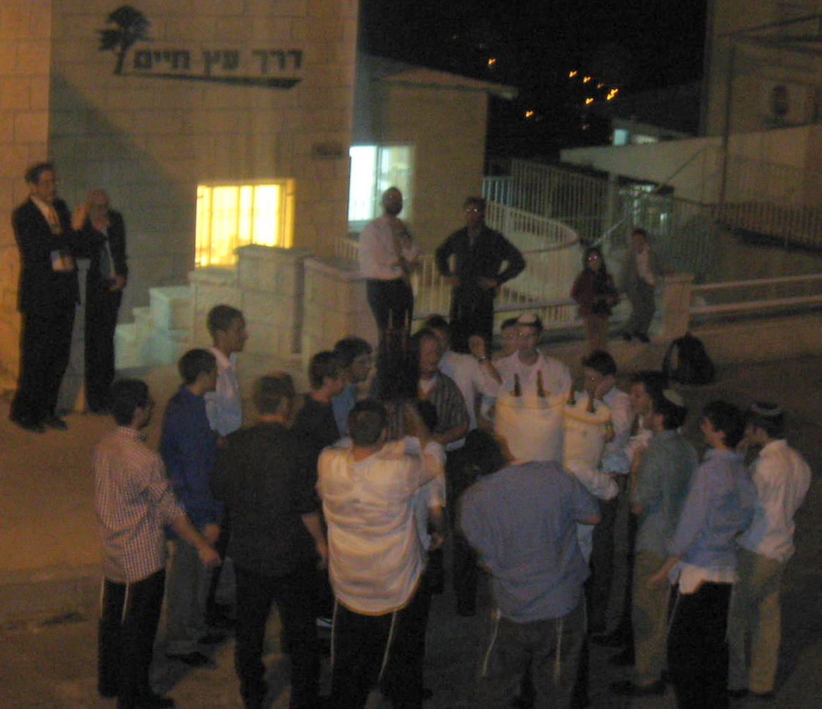 Derech Etz Chaim Simchas Torah Dancing 5768